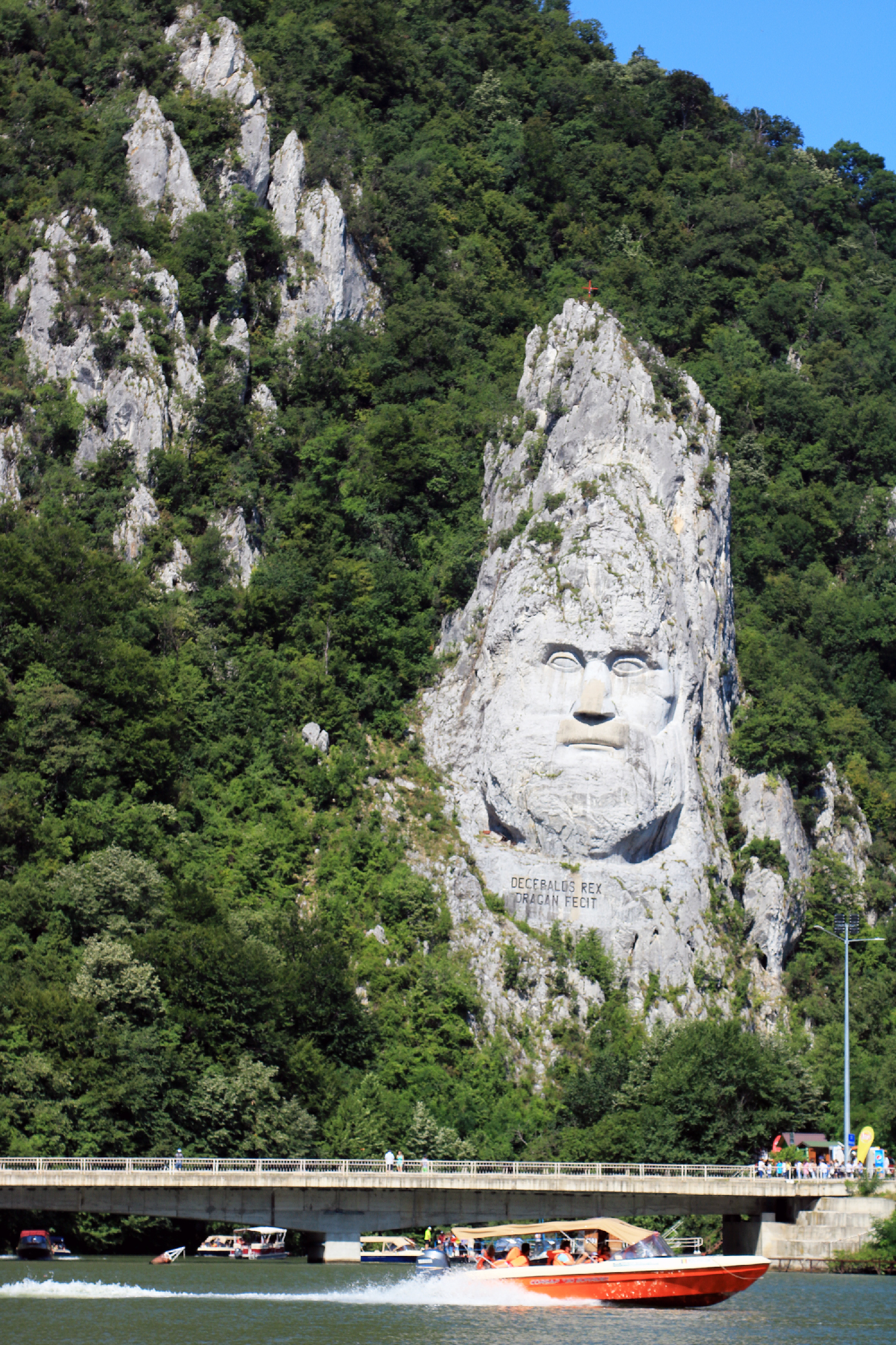 Rock sculpture of Decebalus